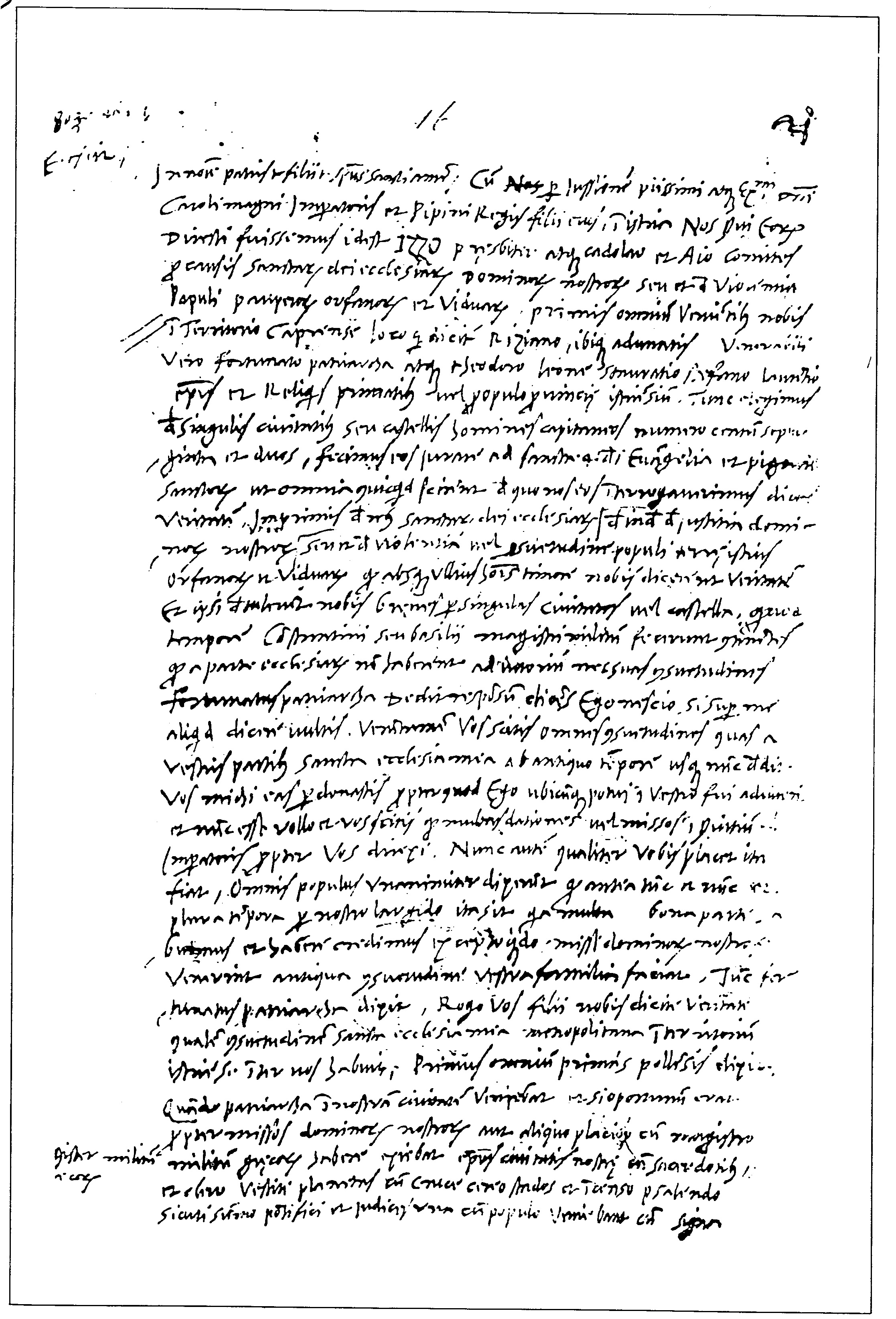 Page 1 of the Rizana Assembly Manuscript, detailing the assembly attended by emissaries of Charlemagne, and governors of the Istrian seaside towns. The assembly took place in the year 804 in Rizana, close to the City of Koper, today in Slovenia. The document is an important historic source for the history of Charlemagne's policy regarding the Byzantine governed coastland in the Adriatic.